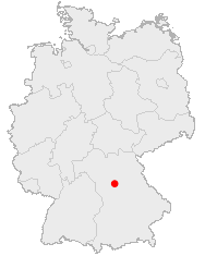 Location of Nuernberg (Nürnberg) in Germany